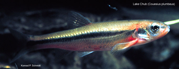 Couesius plumbeus (Agassiz 1850), common name: lake chub